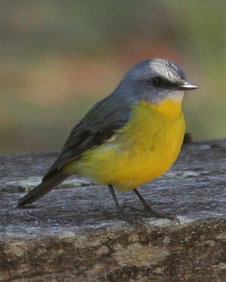 Eastern Yellow Robin, Eopsaltria australis